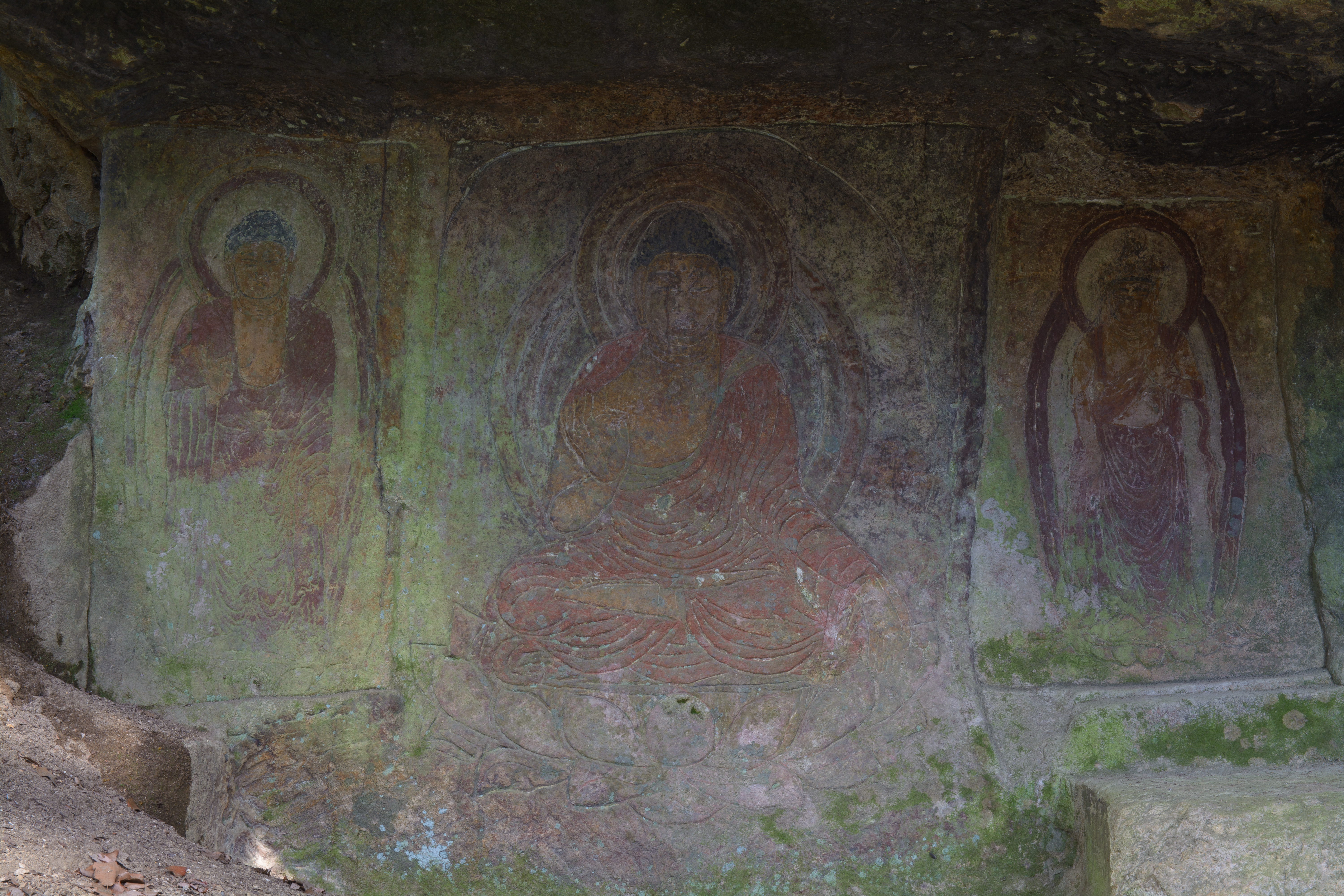 Jigokudani Stone Buddhas in Nara (Jigokudani sekkutsubutsu)